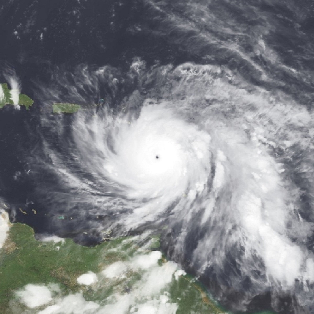 Hurricane Maria making landfall on the island of Dominica as a newly-upgraded Category 5 hurricane on September 19, 2017